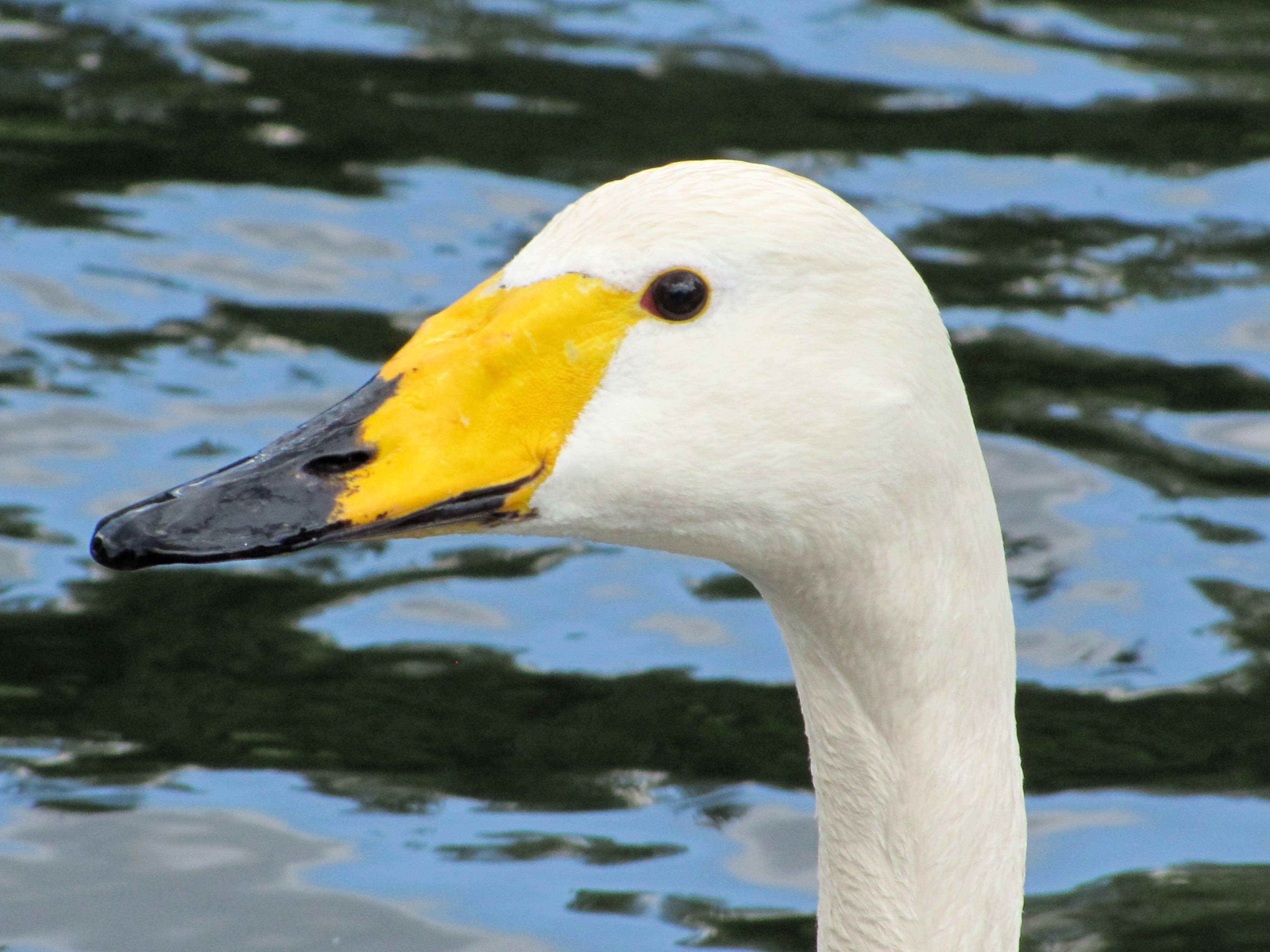 A Whooper Swan at Regent's Park, London, England.